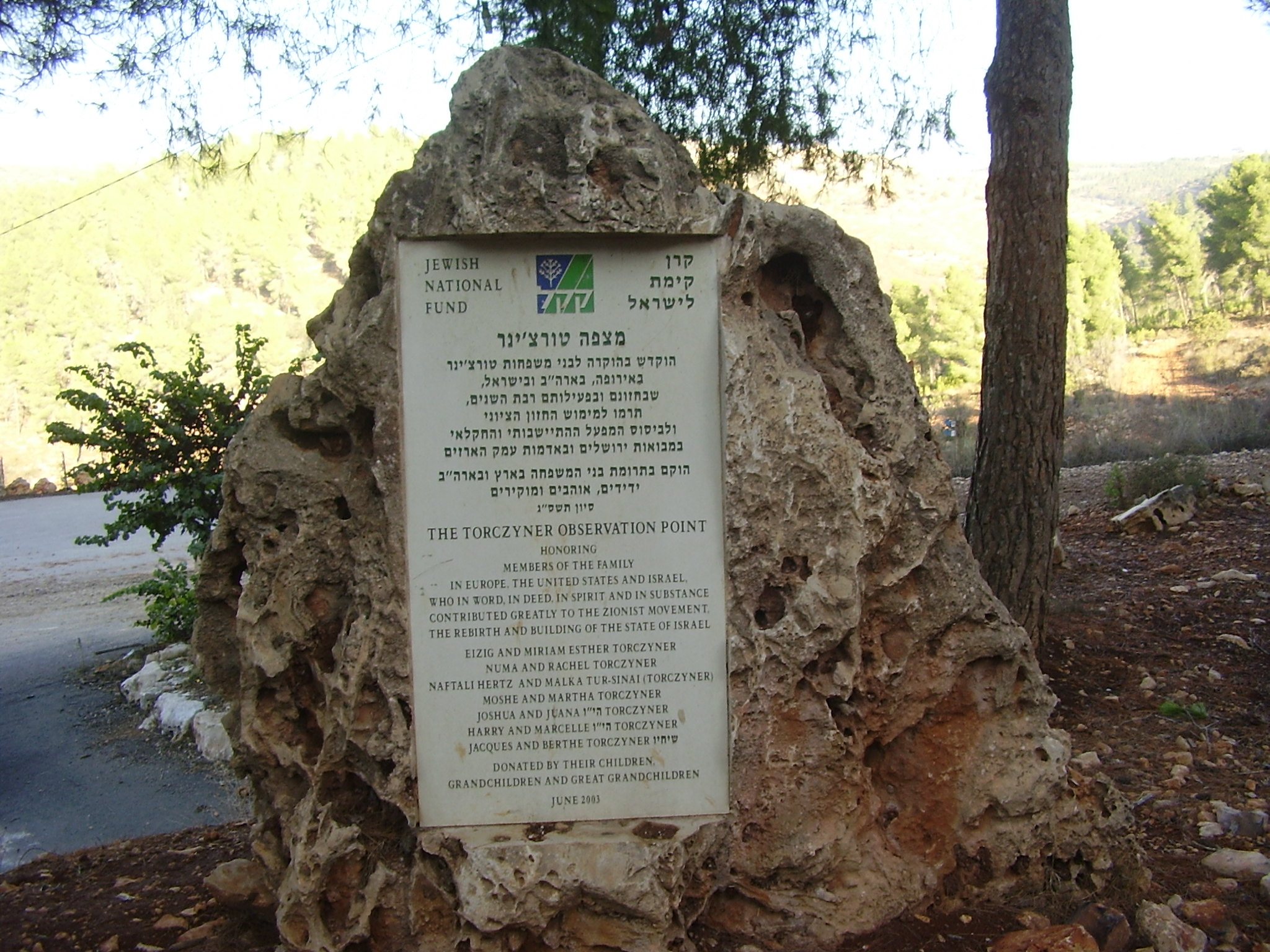 torczyner observatoy point in the cedar valley near jerusalem מצפה טורצ'ינר (טור סיני) בעמק הארזים ליד ירושלים